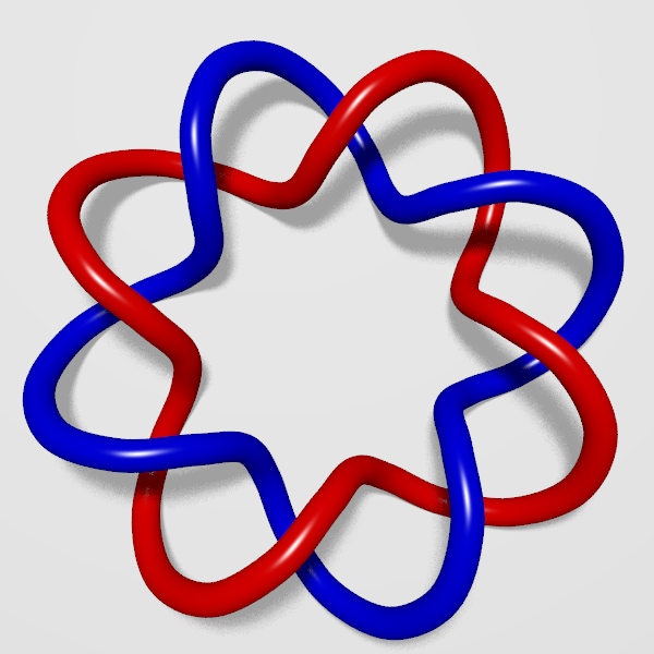 Two curves with linking number 4. L8a14. Created with POV-Ray.